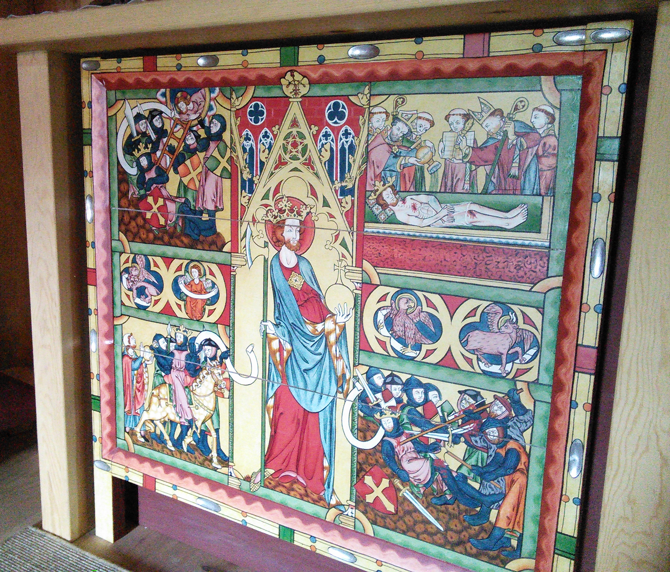 A replica of the Olav Altar Frontal, the best known of 29 known Norwegian altar frontals or fragments of frontals. The replica is housed in the replica of the Haltdalen Stave Church in the Vestmannaeyjar, Iceland (63.444301, -20.261203). The original was made around 1320. The replica replicated the techniques and pigments of the original, and shows how vivid the colours of the original must have been when it was made. The replication team was led by Terje Norsted of the Norwegian Institute for Cultural Heritage Research. (Paul Torvik Nilsen, 'Colourful Middle Ages', Tell'us: Science in Norway (December 2001), 6-9.)